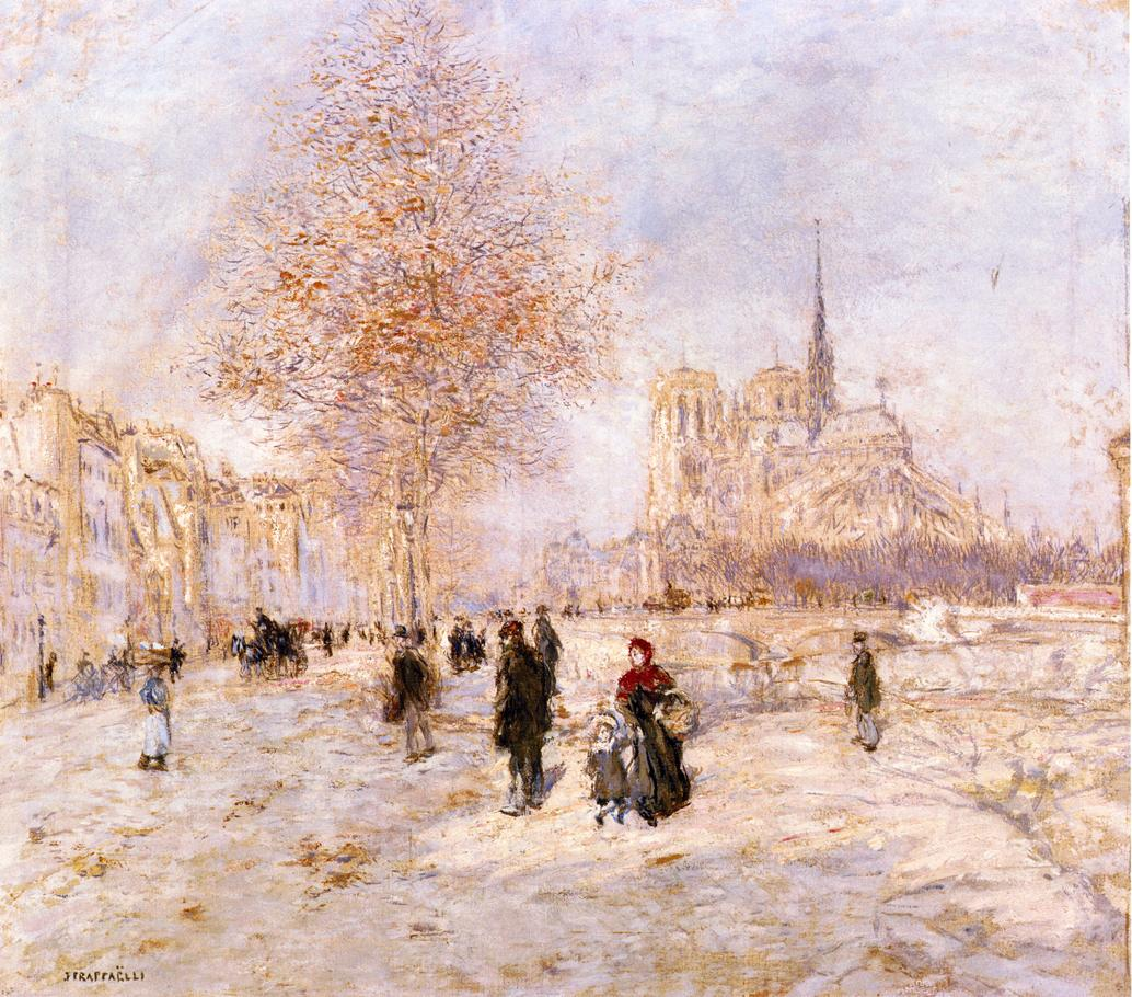 Notre Dame de Paris